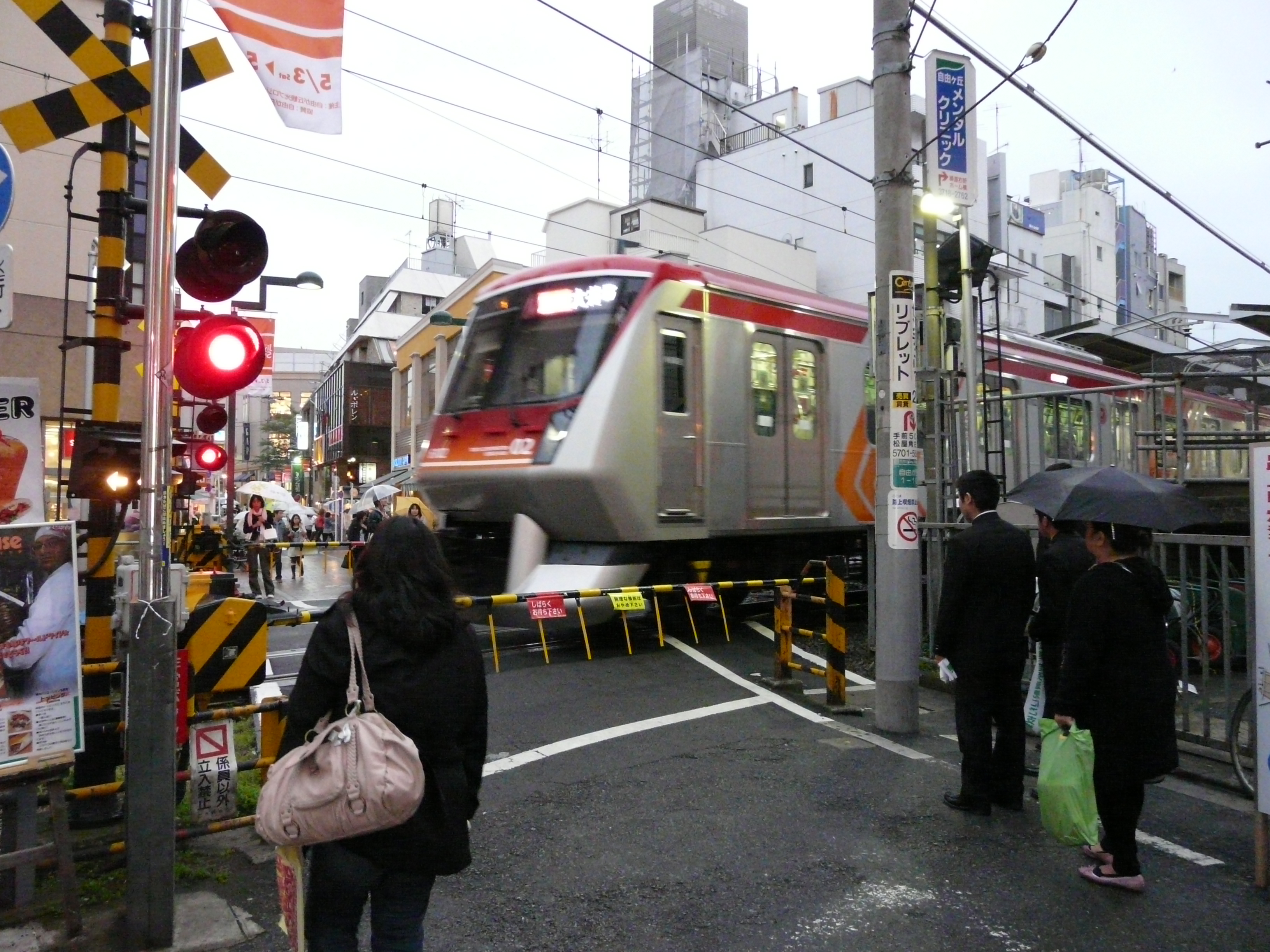 See where this picture was taken